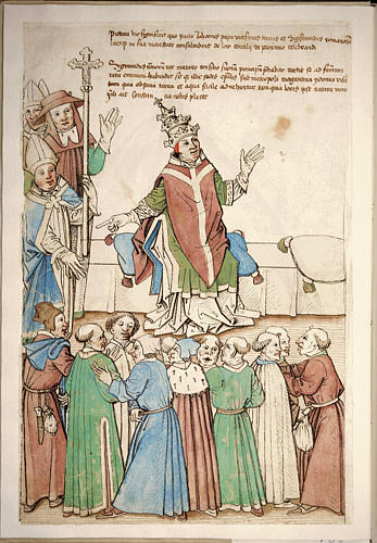 How the Council of Constance aided the eventual end of the great Schism Of The West of 1378-1417